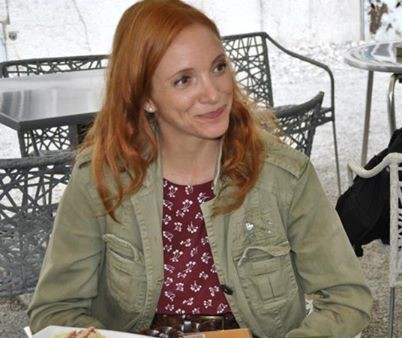 Mojca Mavec (1973-)